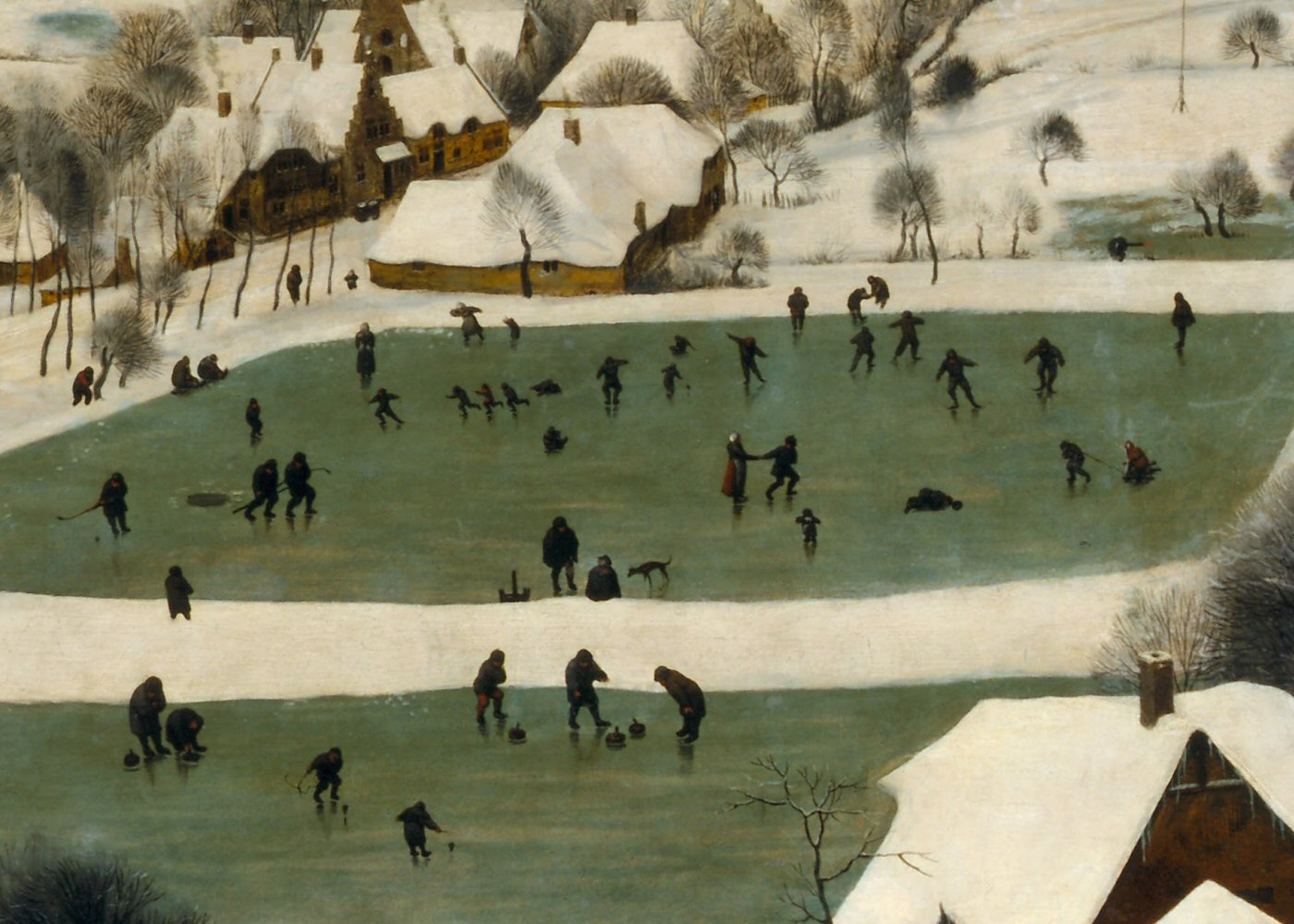 Pieter Bruegel the Elder - Hunters in the Snow Detail Winter Games, Children's Games